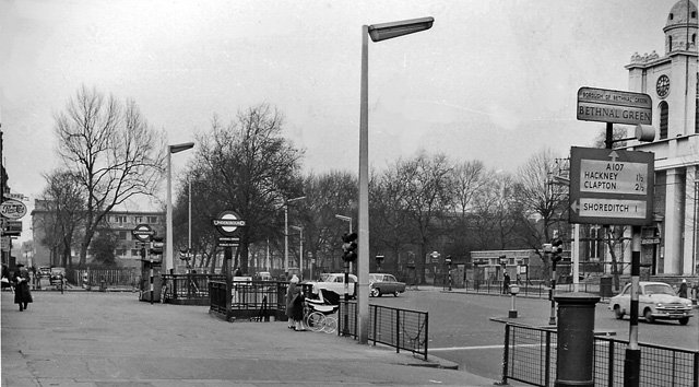 Entrance to Bethnal Green Underground Station, View northward on Cambridge Heath Road at Bethnal Green Road.